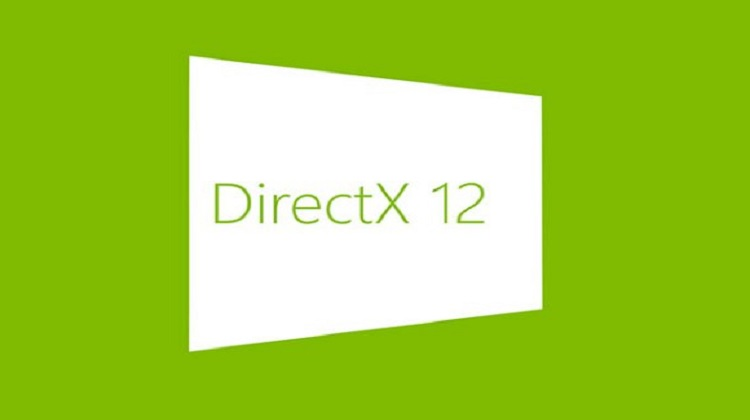 DirectX 12